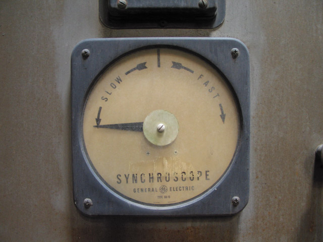 Photograph of a synchroscope taken by me.